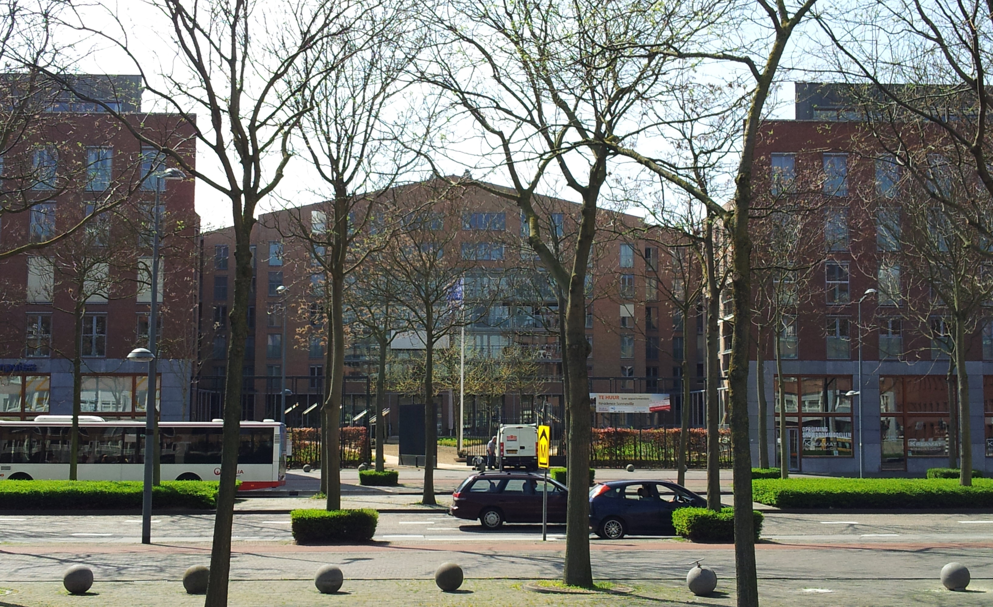 Maastricht, the Netherlands. View of one of the buildings, designed by bOb Van Reeth, on Avenue Céramique, the main avenue in the newly developped Céramique district.